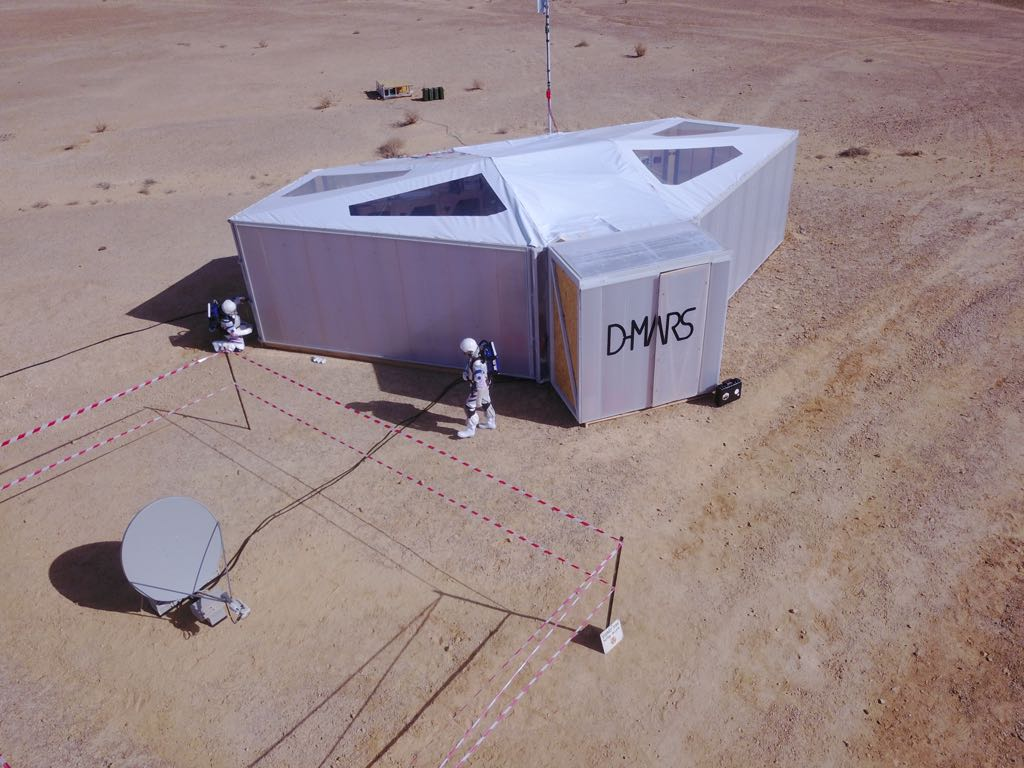 Two Ramonaut performing EVA outside the habitat during the D-Mars analog Mars mission in the Ramon Crater. Israel, February 2018 Drone footage